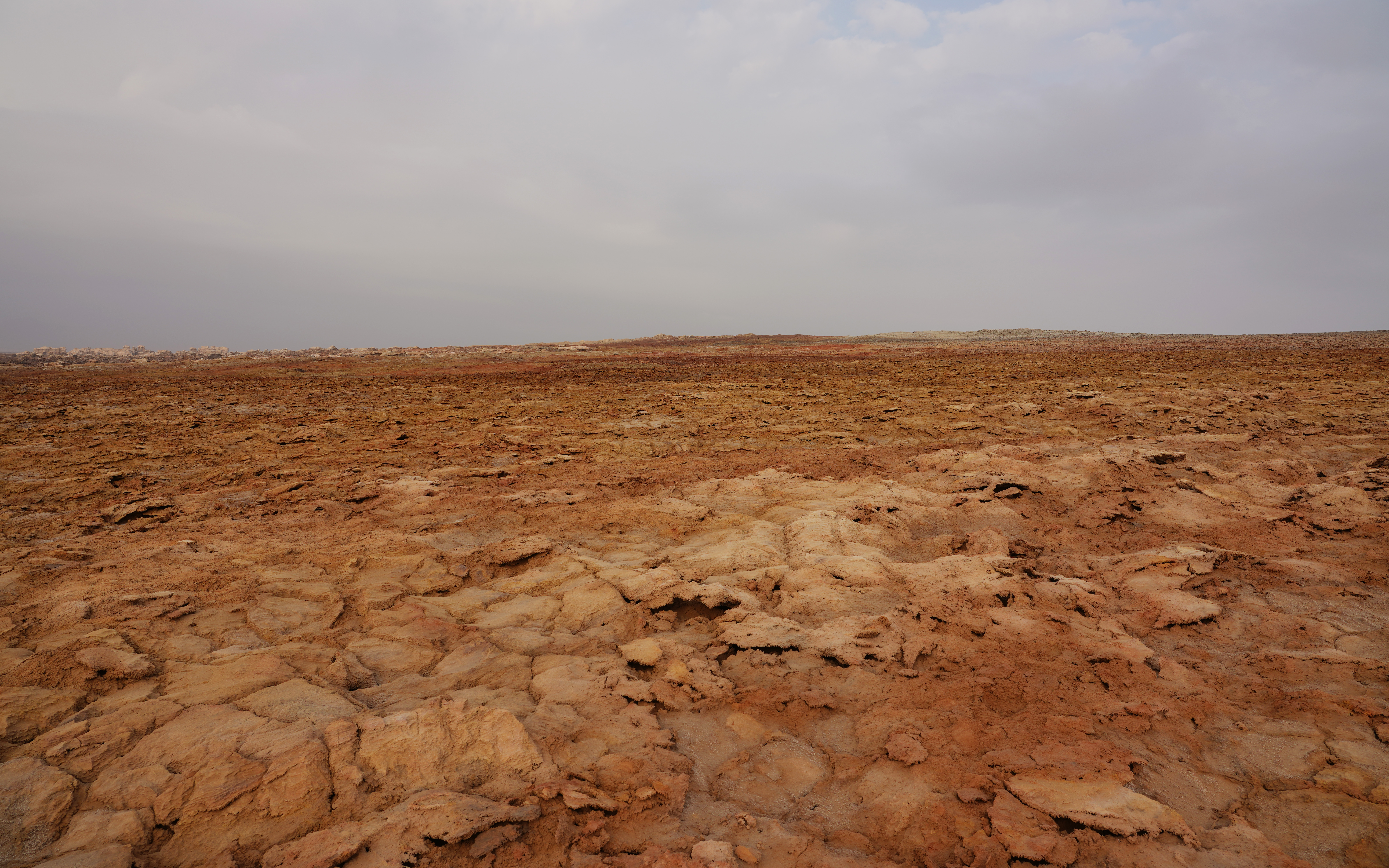 Landscape at Dallol volcano, Afar Region, Ethiopia